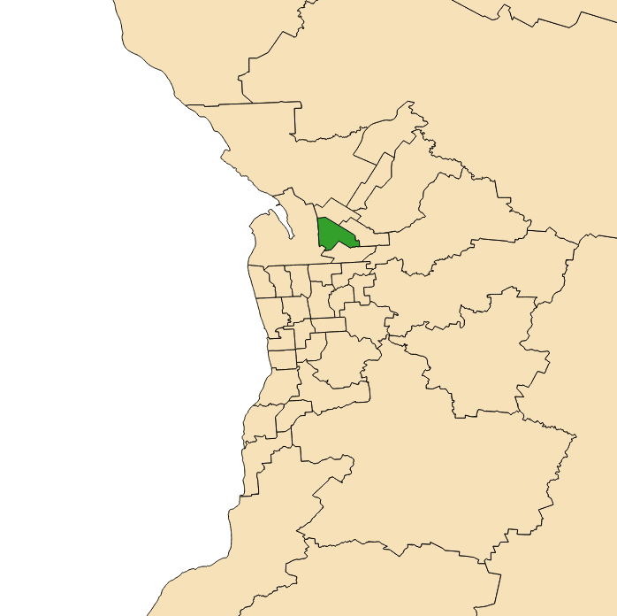 Electoral district 2018 boundaries shown in green